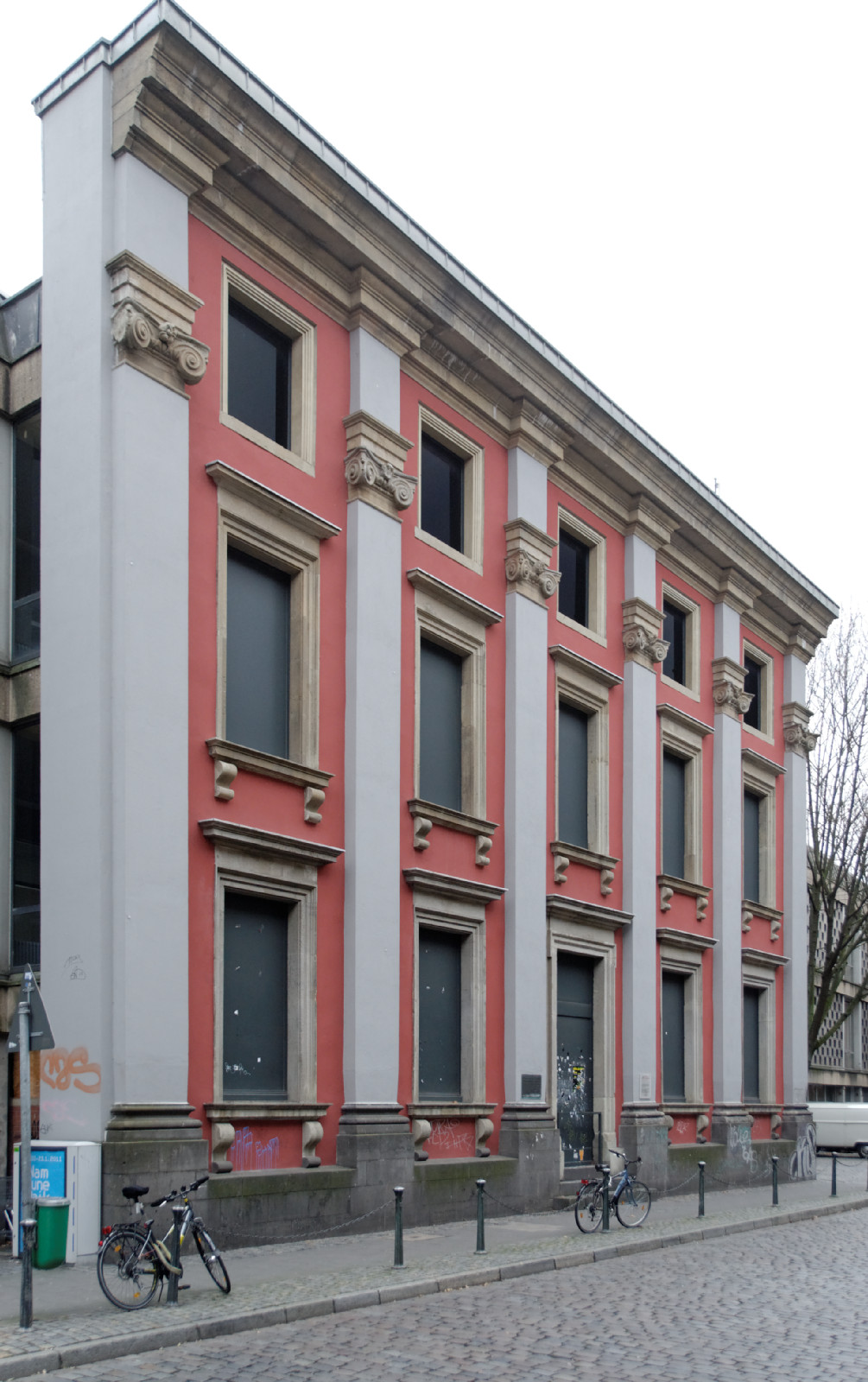 House Ratinger Straße 15 in Düsseldorf-Altstadt, Germany